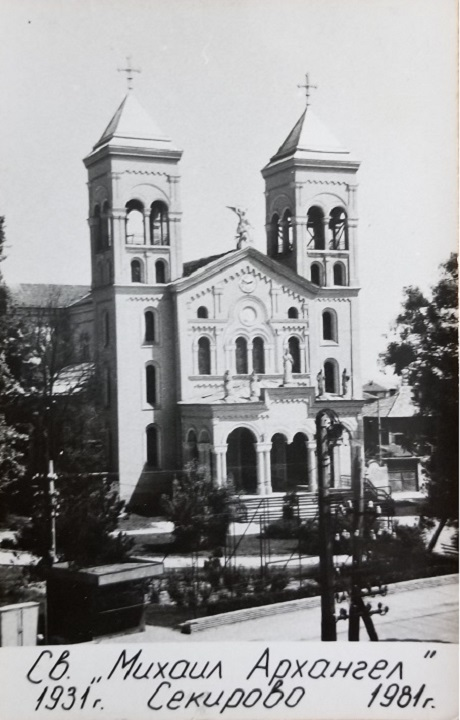 Anniversary photo of St. Michael the Archangel Michael in Rakovski